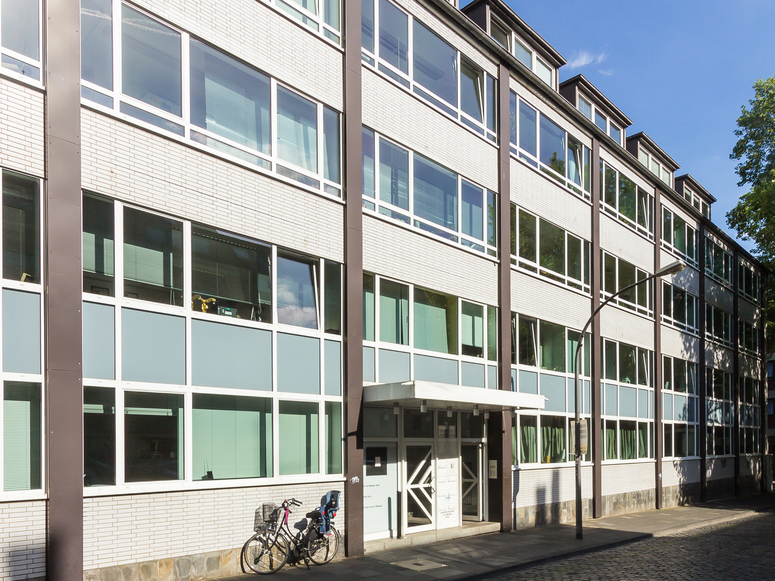 Adademy of Media Arts, Cologne